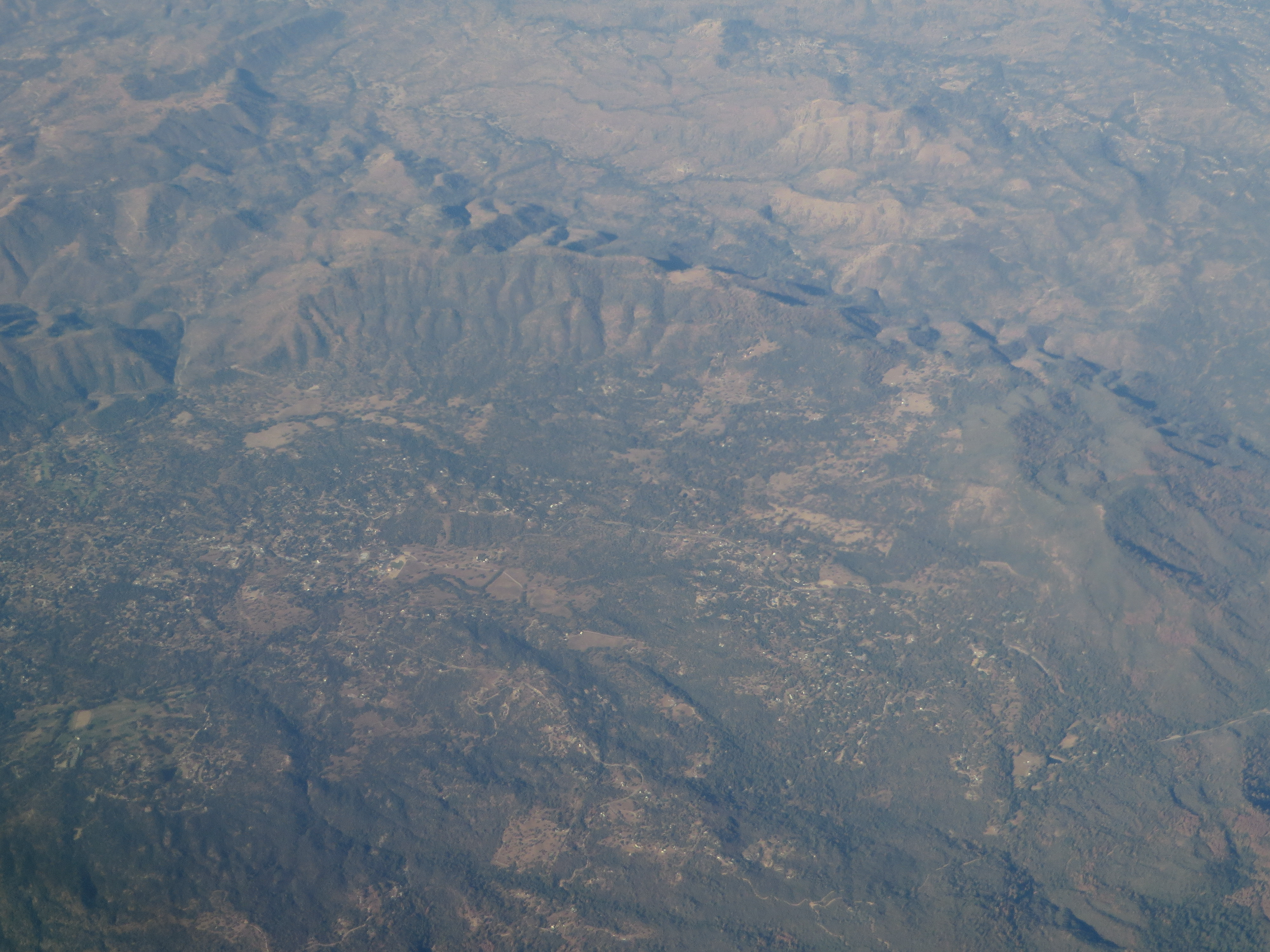 Ahwahnee is a census-designated place in Madera County, California. It is located 5.25 miles (8.4 km) west of Yosemite Forks, at an elevation of 2326 feet (709 m). The population was 2,246 at the 2010 census. Ahwahnee is hilly and located in the Sierra Nevada mountains. The ZIP Code is 93601. The community is inside area code 559. It is part of the Madera–Chowchilla Metropolitan Statistical Area.